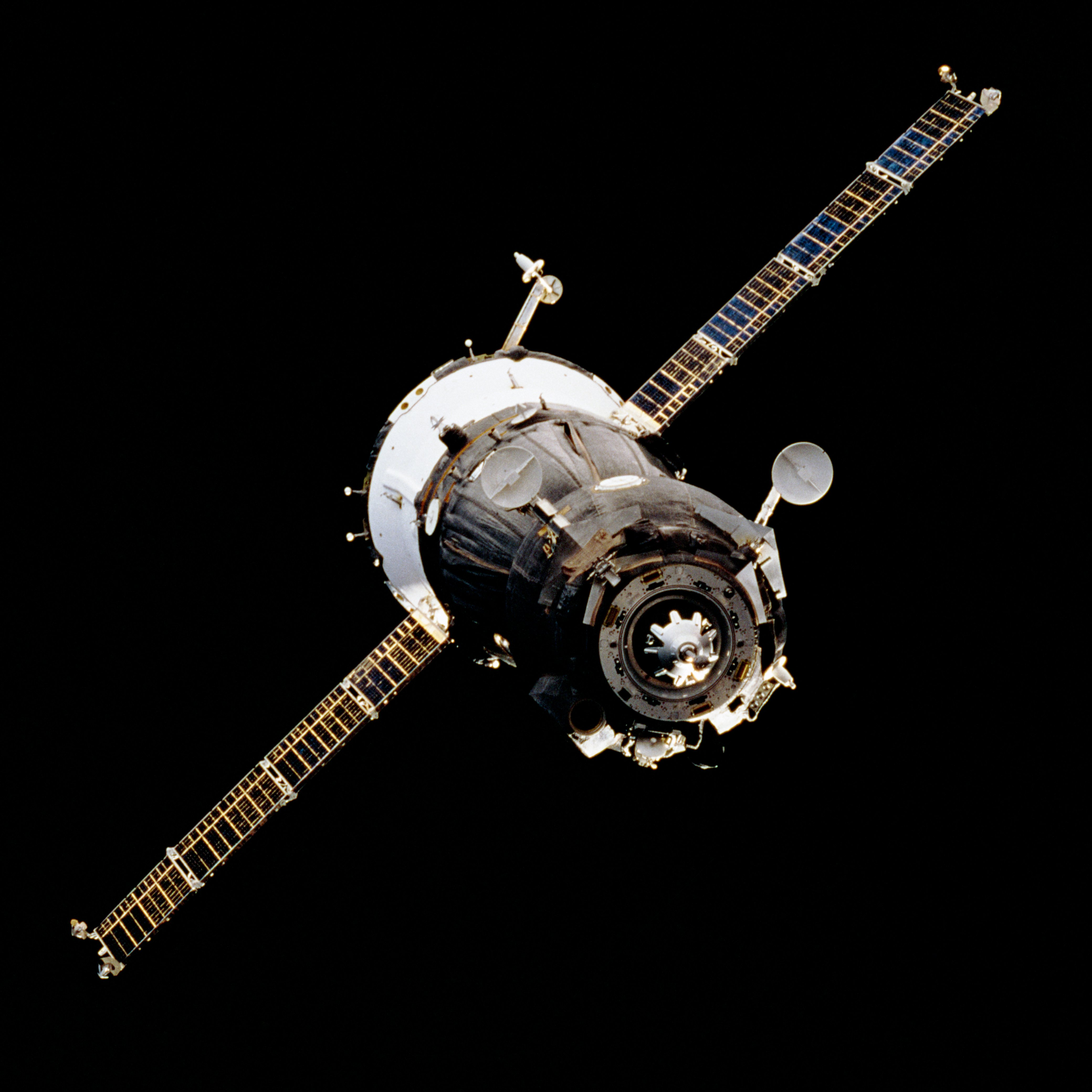 View of the Soyuz spacecraft undocked from the Mir space station during the undocking of the Mir and the space shuttle Atlantis.